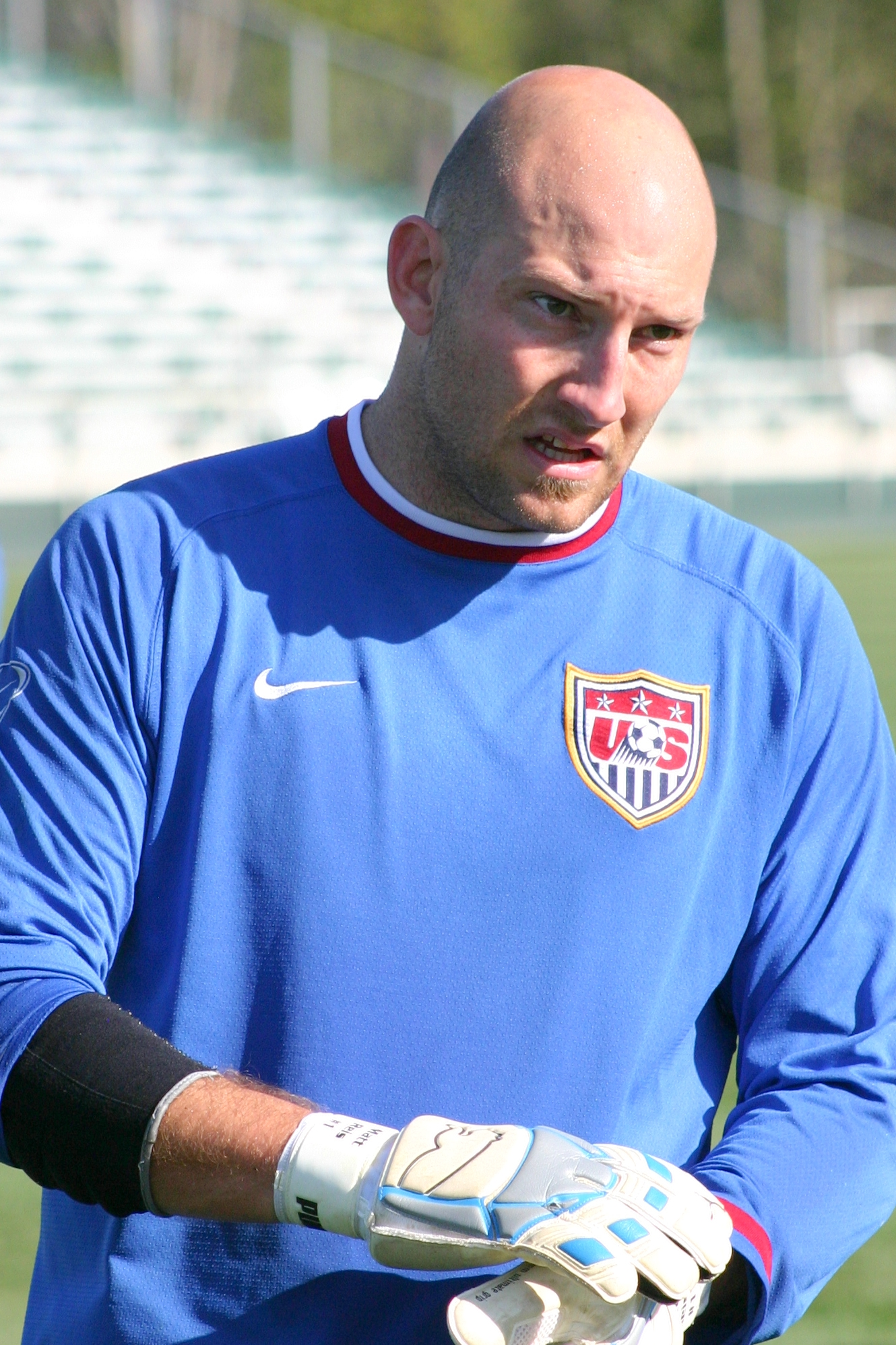 Matt Reis on the US Men's National Team practices.